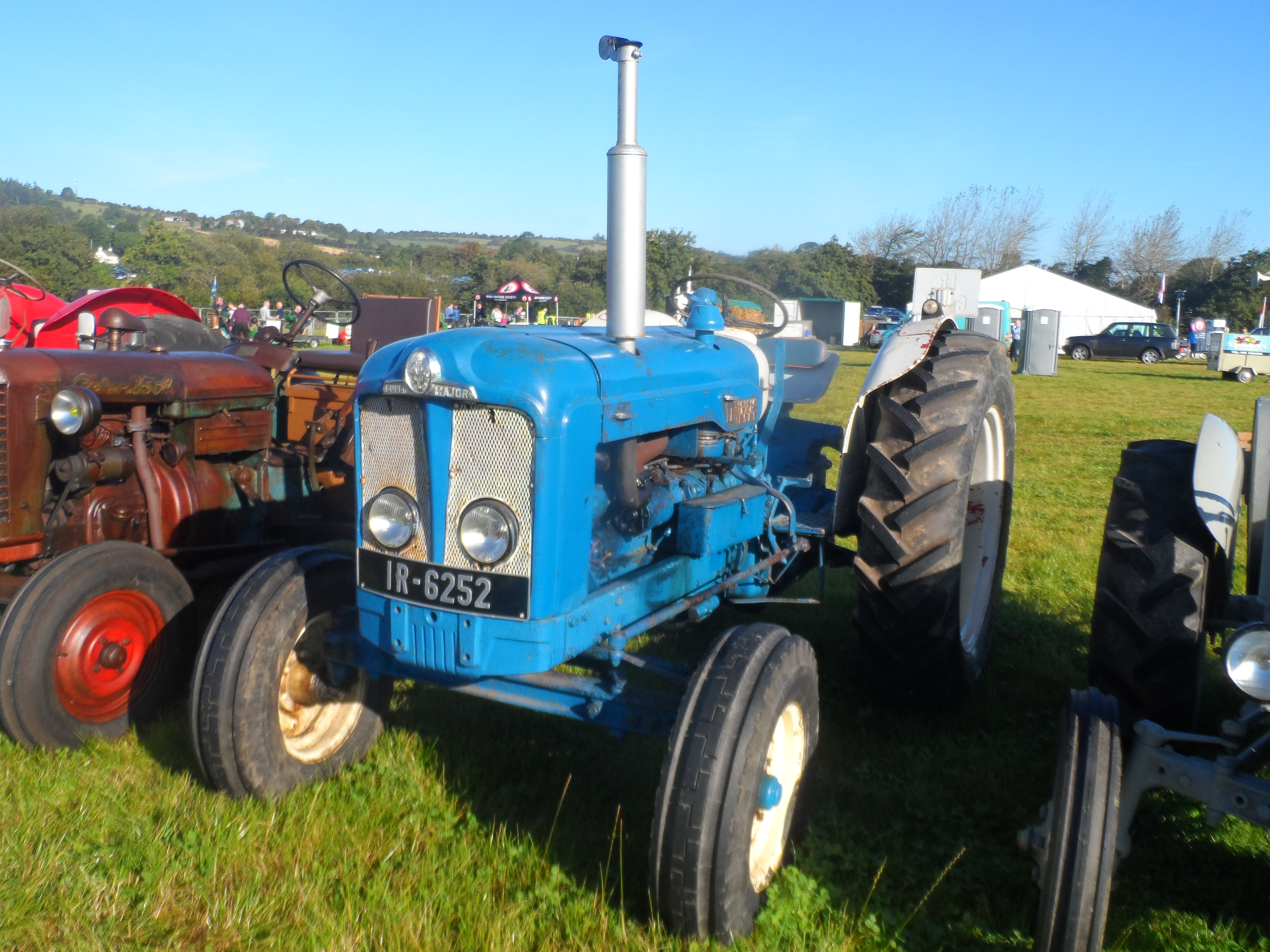 Blue tractor